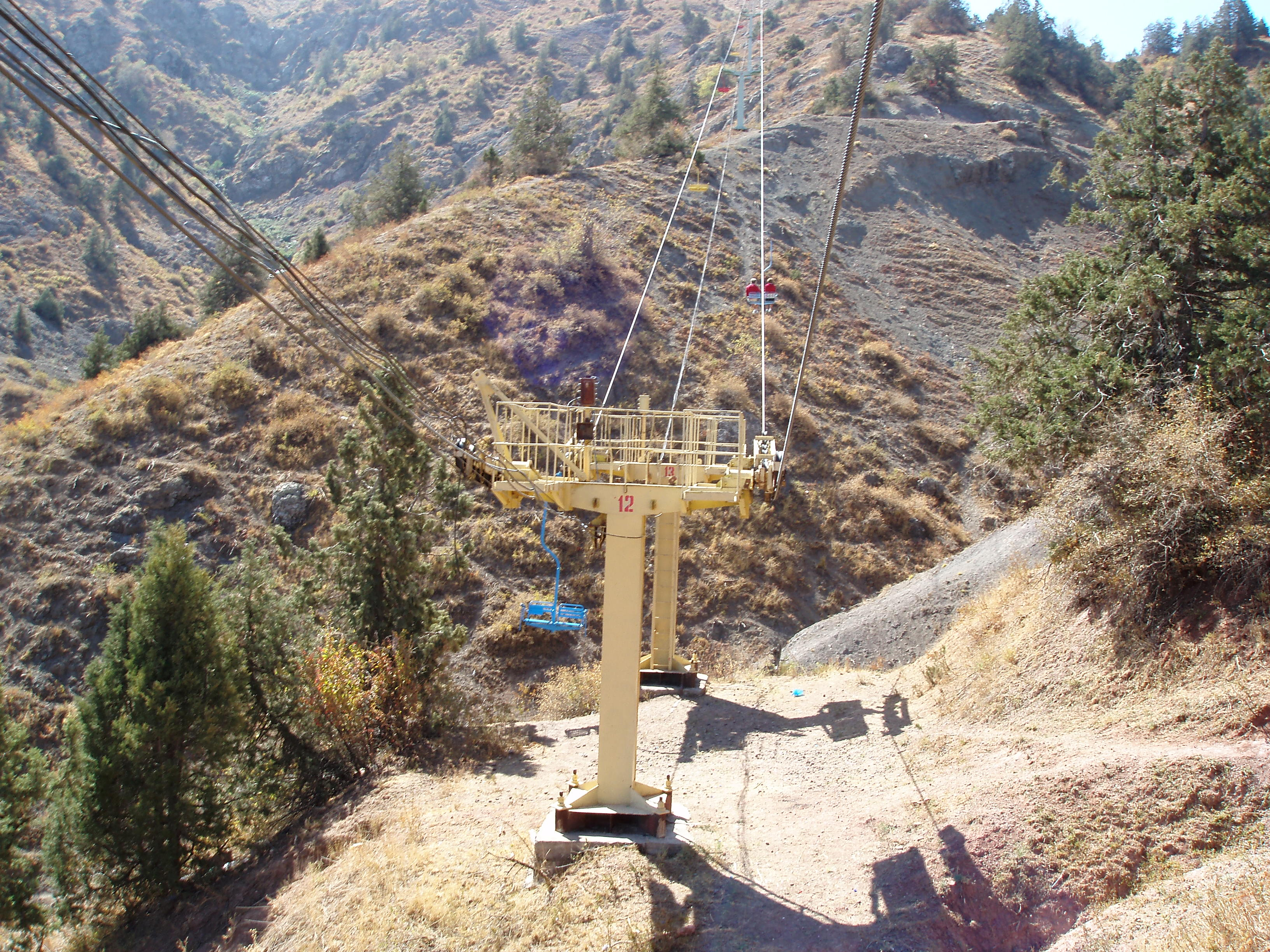 chairlift near Chimgon, Eastern Uzbekistan